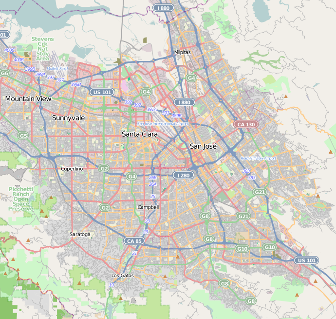 This map of San Jose, California and Silicon Valley was created from OpenStreetMap project data, collected by the community. This map may be incomplete, and may contain errors. Don't rely solely on it for navigation.